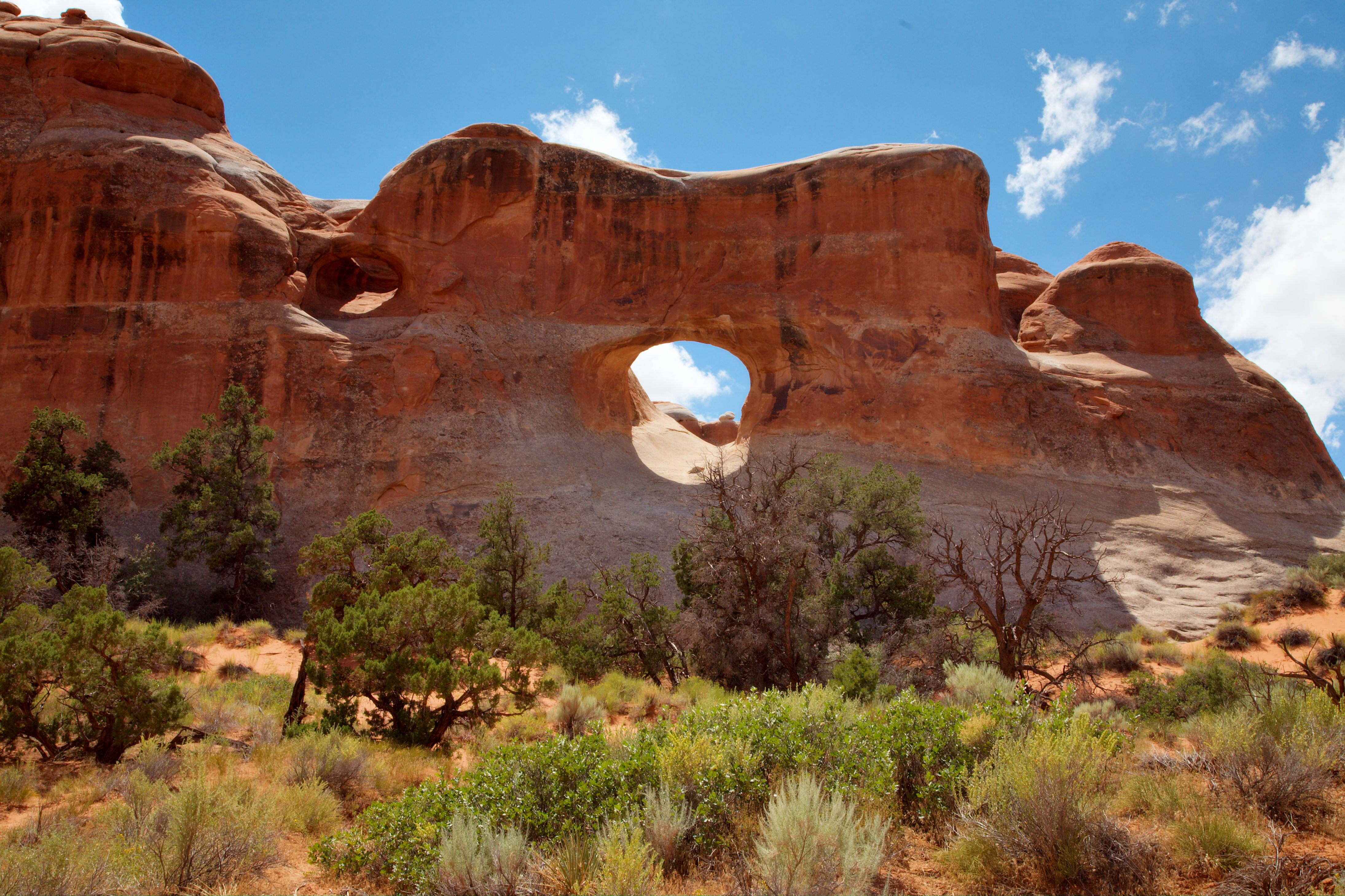 Tunnel Arch, Arches National Park